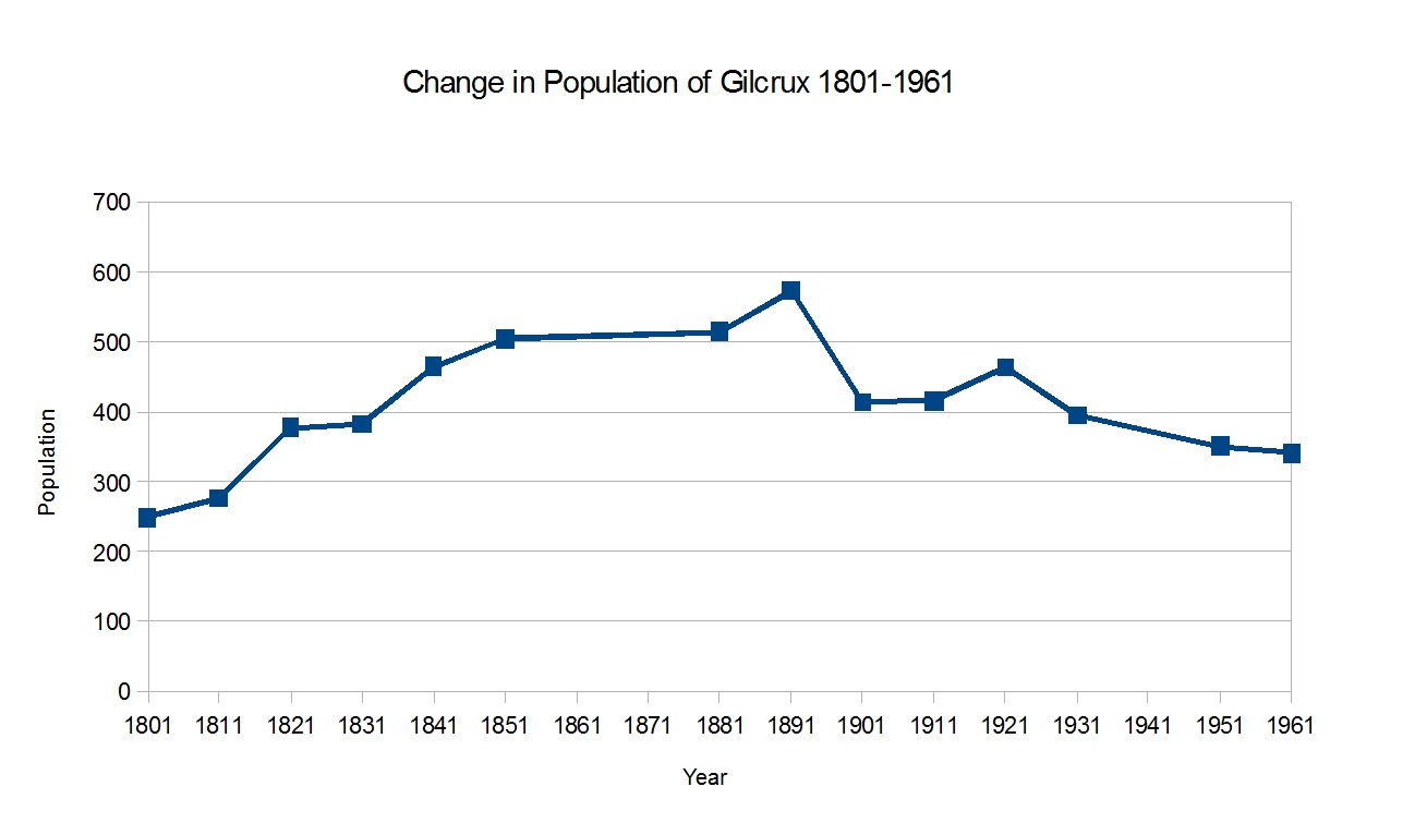 Gilcrux's population (1801-1961).